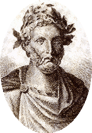 Skidmore College Artstor